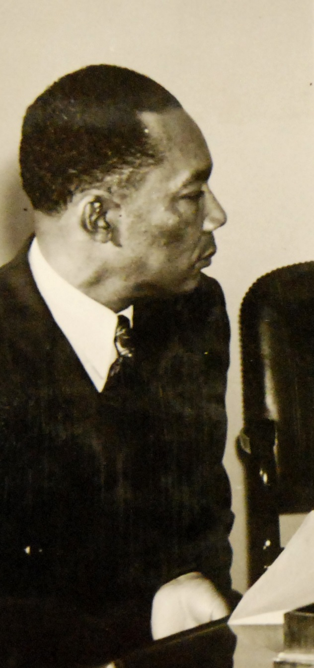 Ferdinand Smith while national secretary, National Maritime Union Lot-1945-7: WWII-Homefront. Left to right: Ferdinand Smith, national secretary, National Maritime Union. He is from New York; Alderman Earl B Dickerson of Chicago, a member of the President’s Committee on Fair Employment Practices; and Donald M. Nelson, Chairman of the War Production Board. These two men came in on an appointment arranged by Phil Murray to present to Mr. Nelson, a plan for making fuller use of the African-American man-power in war production. Office of War Information. Courtesy of the Library of Congress. (2017/05/19).